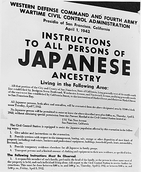 Exclusion Order posted at First and Front Streets directing removal of Japanese people